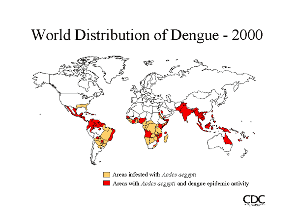 Worldwide dengue distribution, 2000.